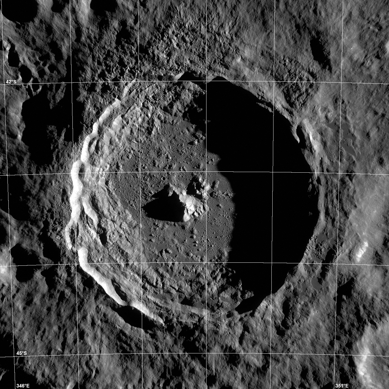 LROC WAC mosaic of Tycho crater with lighting similar to that when the NAC oblique image was taken. Mosaic is 130 km wide, north is up [NASA/GSFC/Arizona State University].